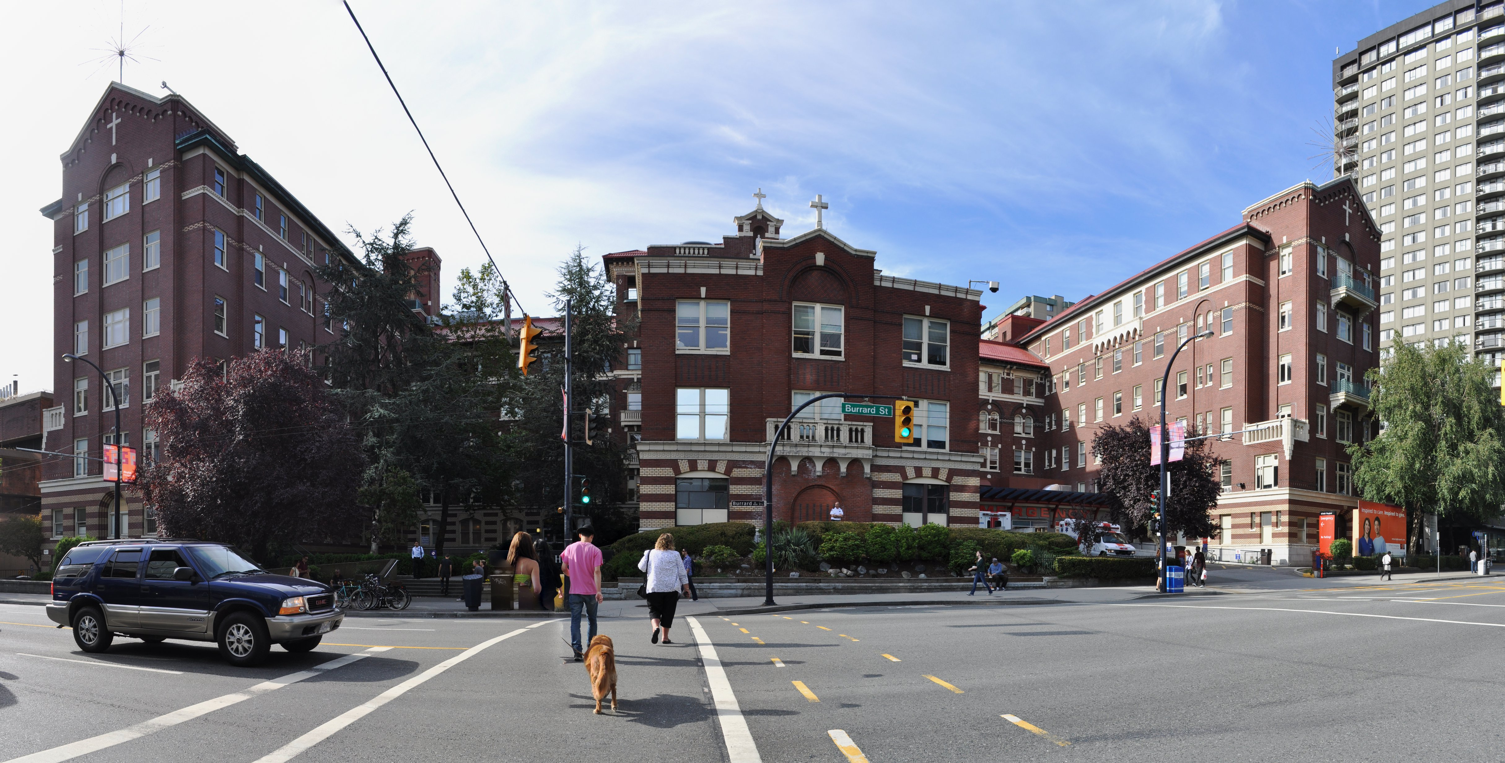 Panoramic view of St. Paul's Hospital, Vancouver, BC. This image was created with Hugin.